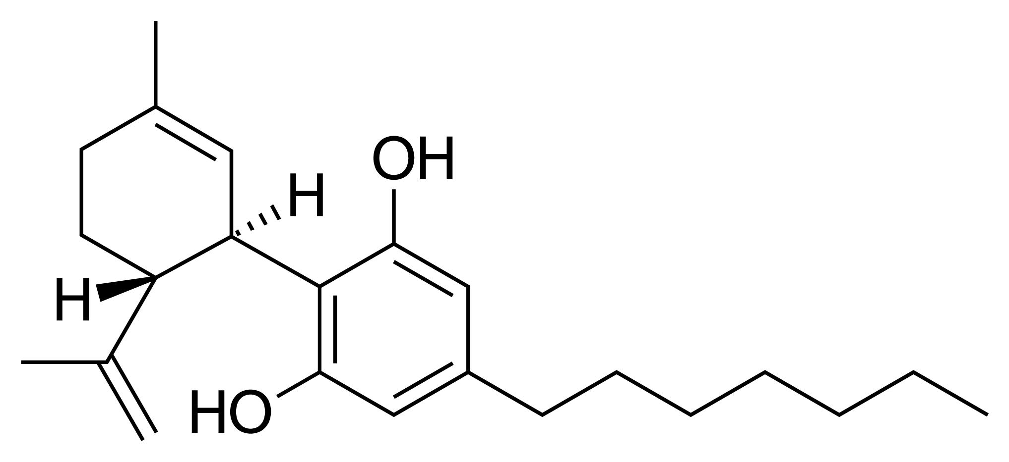 Structure of cannabidiphorol